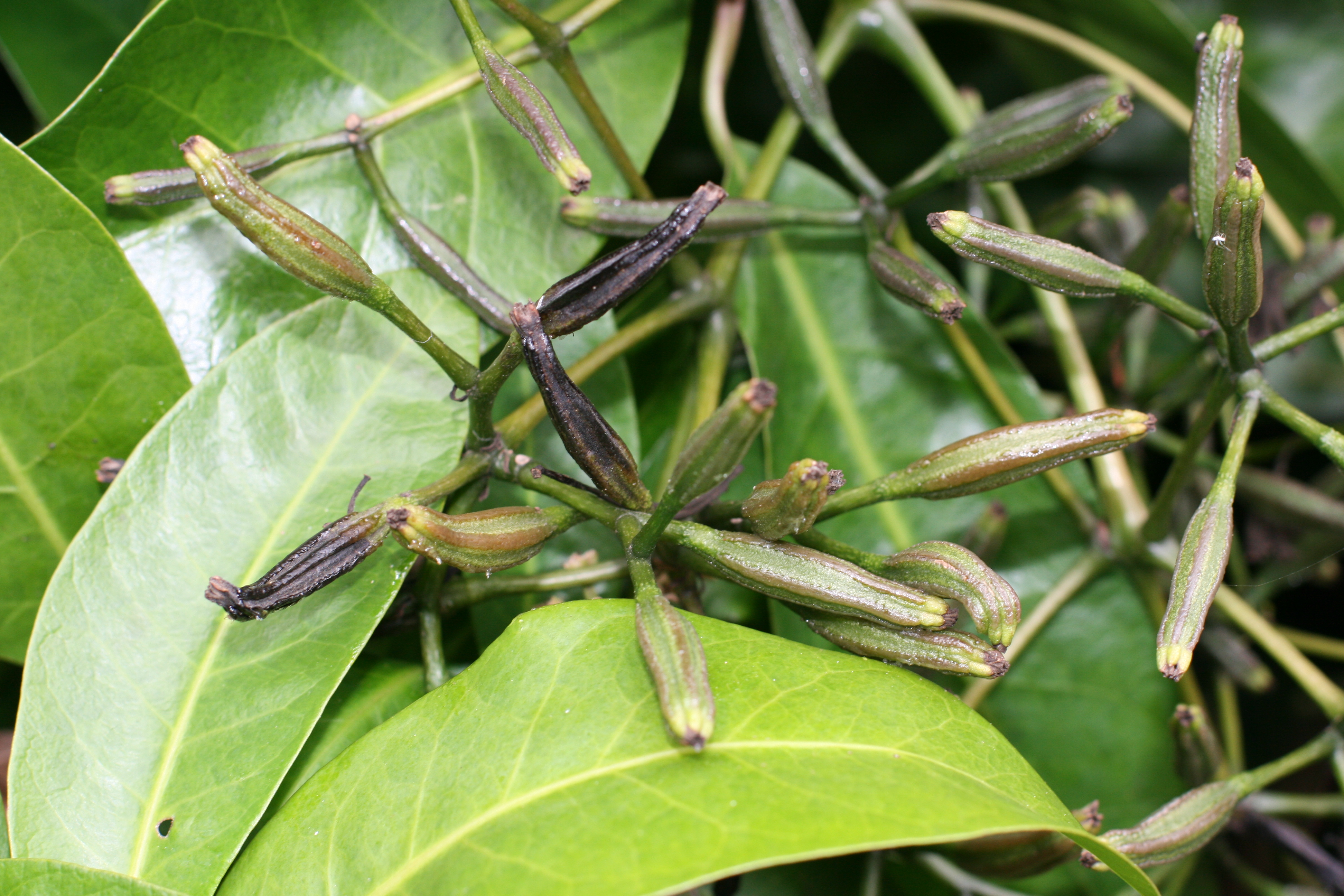 fruit of Pisonia brunoniana (Parapara, Bird-catcher tree), Auckland New Zealand. The seeds turn black and sticky as they ripen.